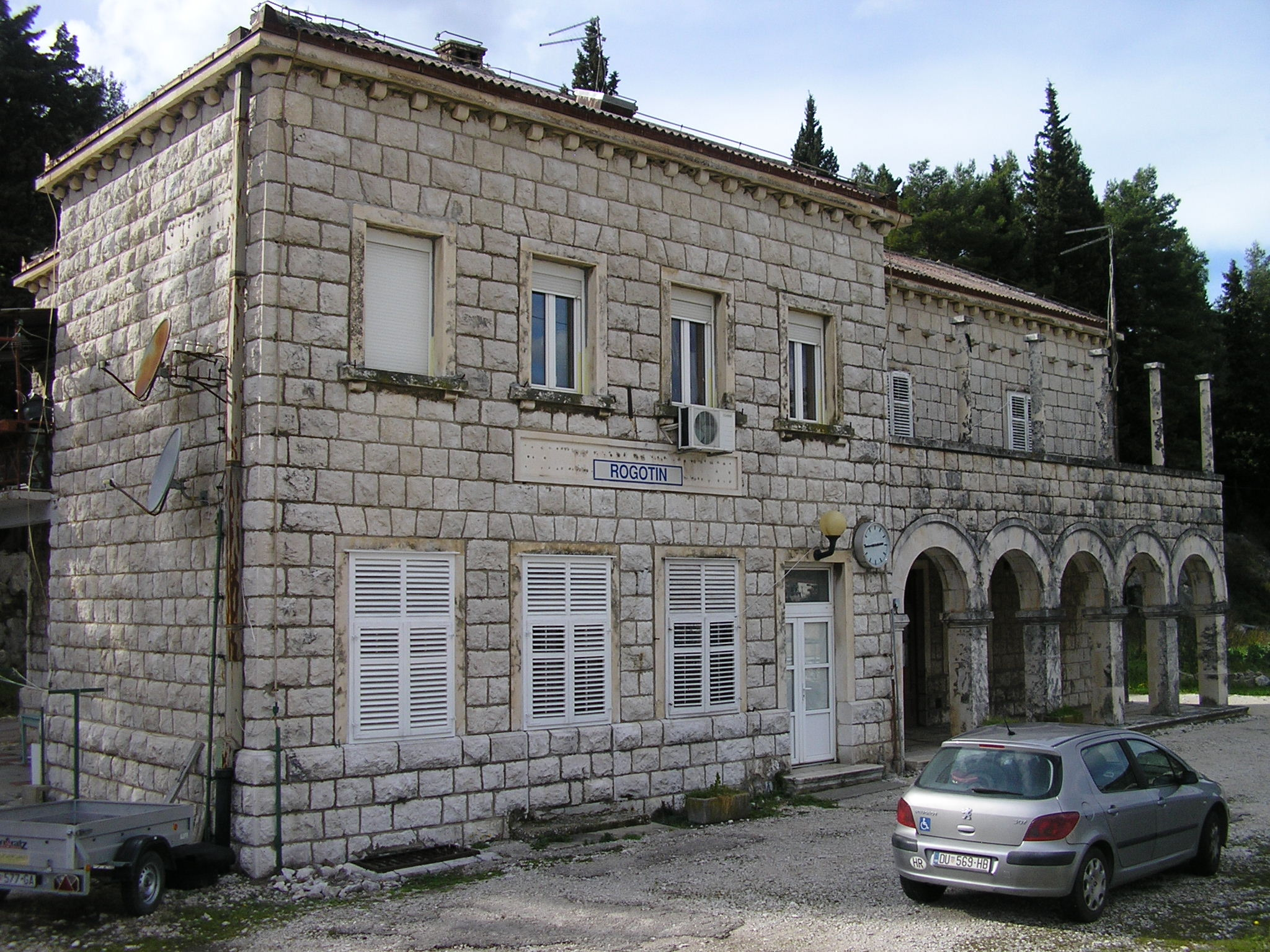 Rogotin railway station